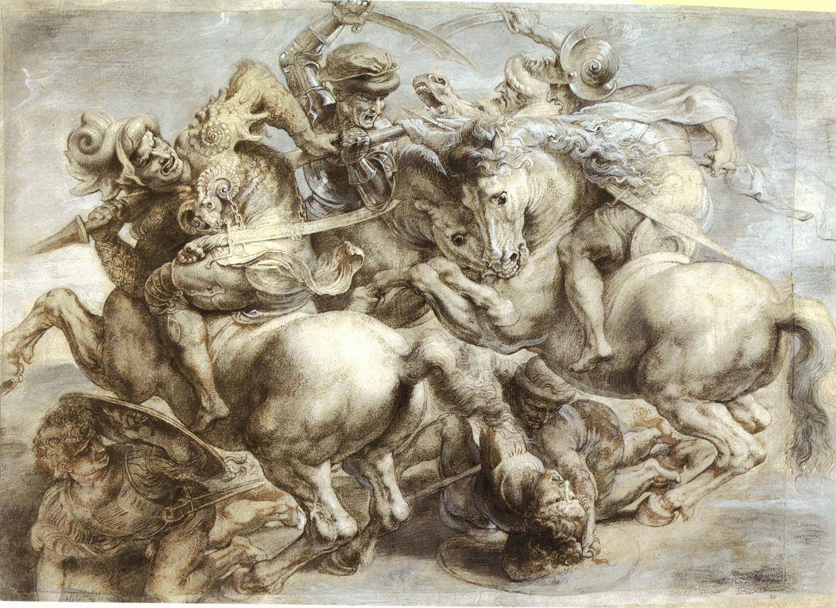 Copy after a fresco in the Palazzo della Signoria in Florence, executed in 1504-1505 and destroyed around 1560.